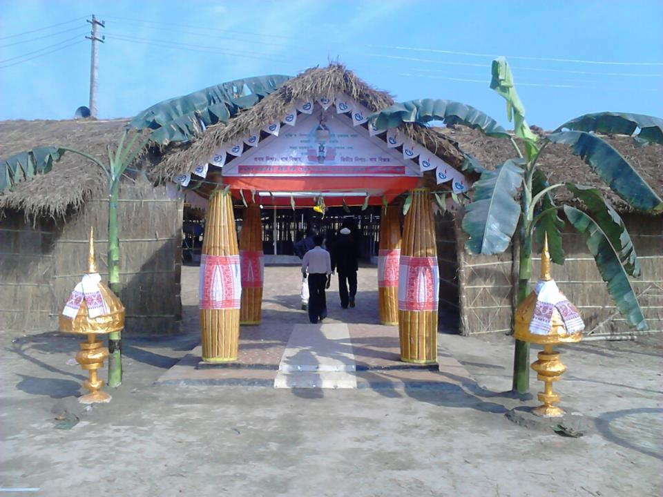 Entrance of Barechahariya Bhaona Mahotsav. Barechahariya Bhaona (Assamese: বাৰেচহৰীয়া ভাওনা) is one of the unique socio-religious cultural festivals of Assam which is organized in Jamugurihat, a village under Sonitpur District in every 5 years. It has been observed for the last 200 and more years.